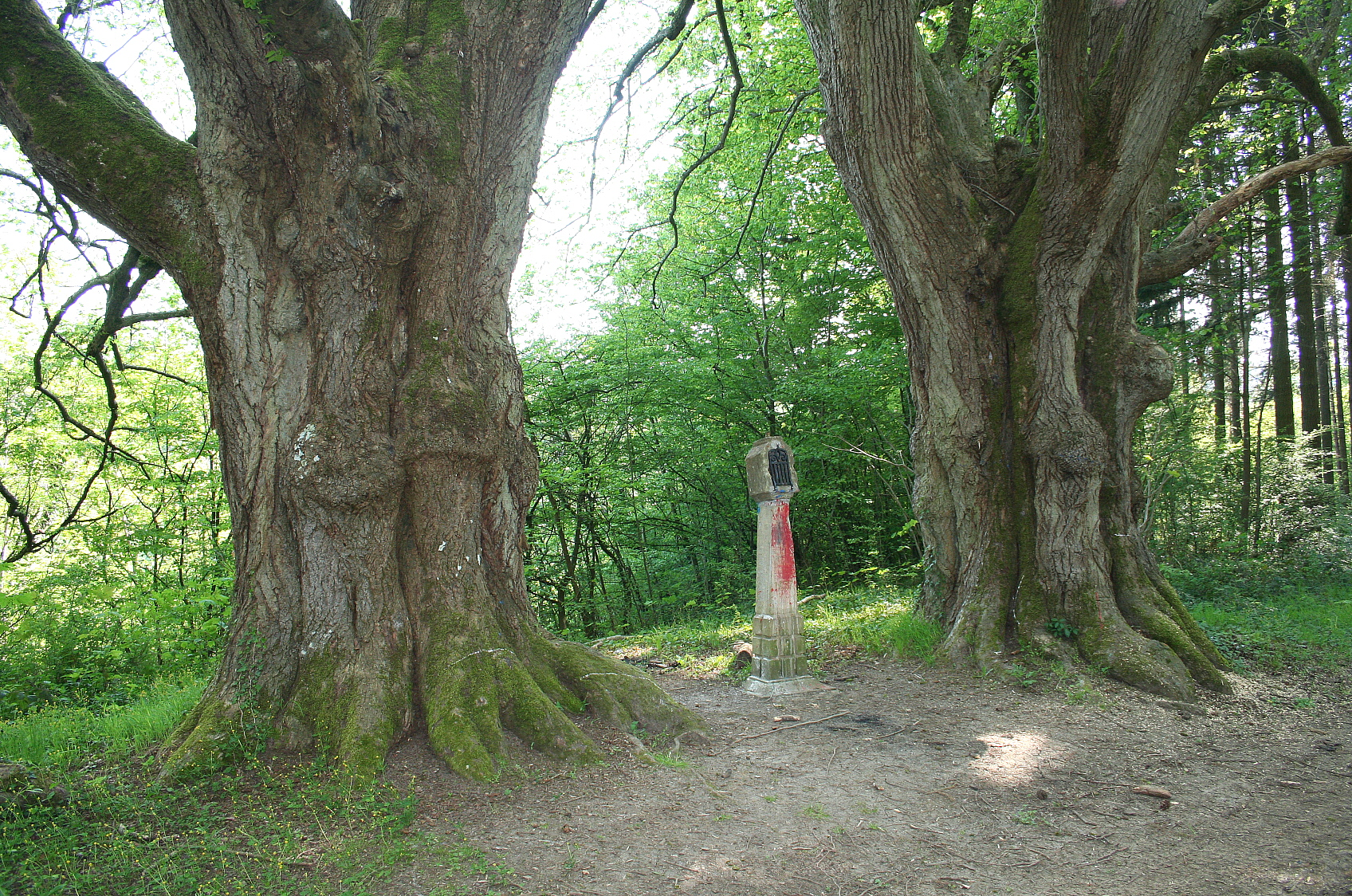 Two Large-leaved Limes (Tilia platyphyllos)